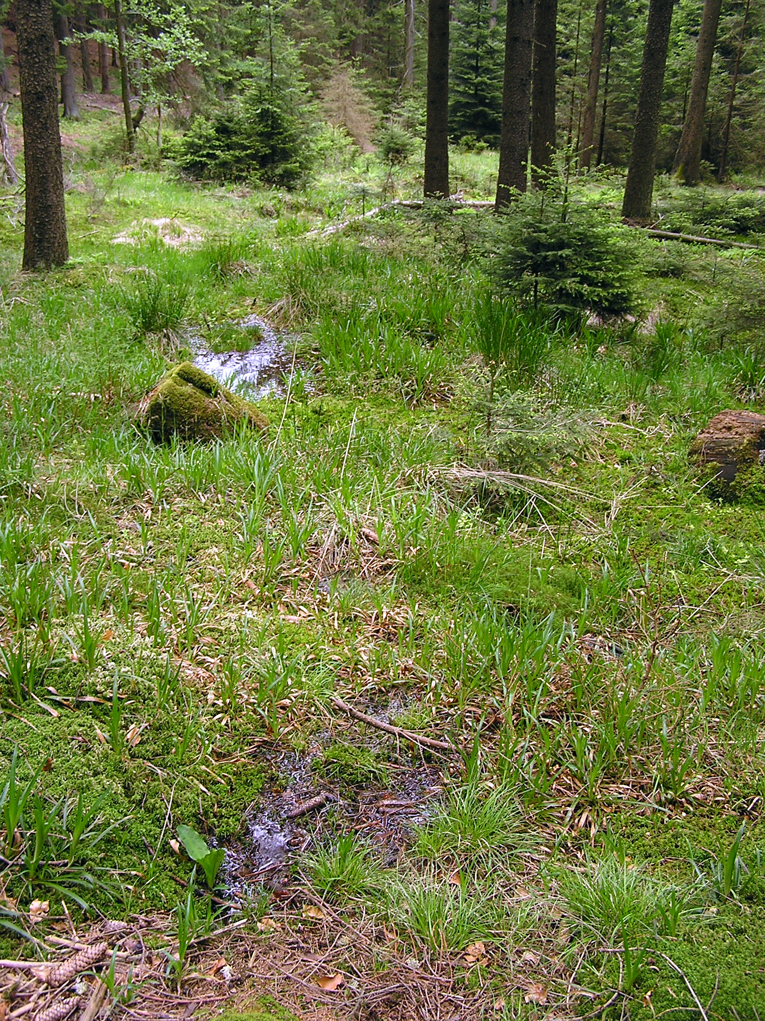 Spring area of the Rombach